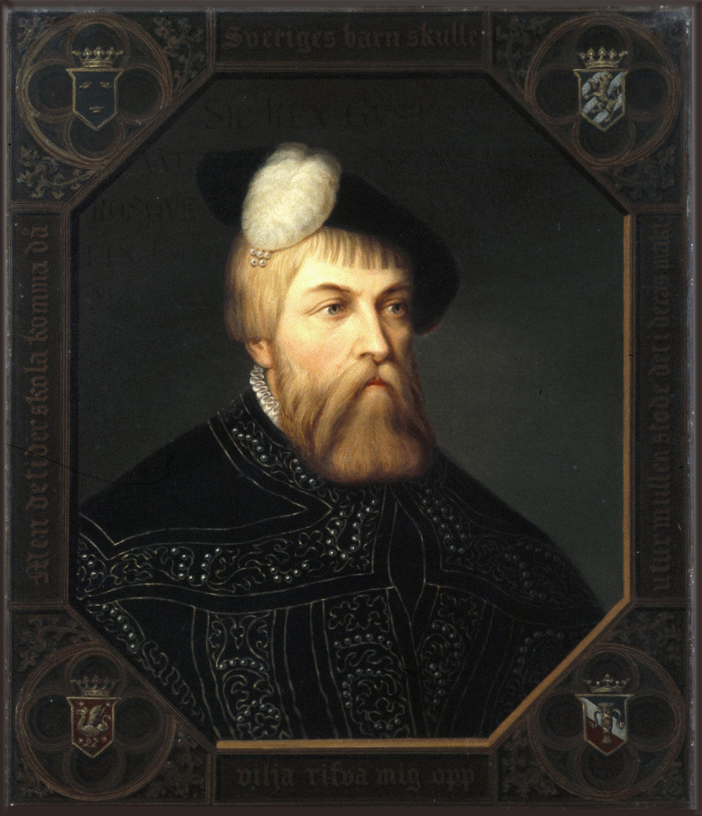 Portrait of Gustav I Eriksson (1496-1560)